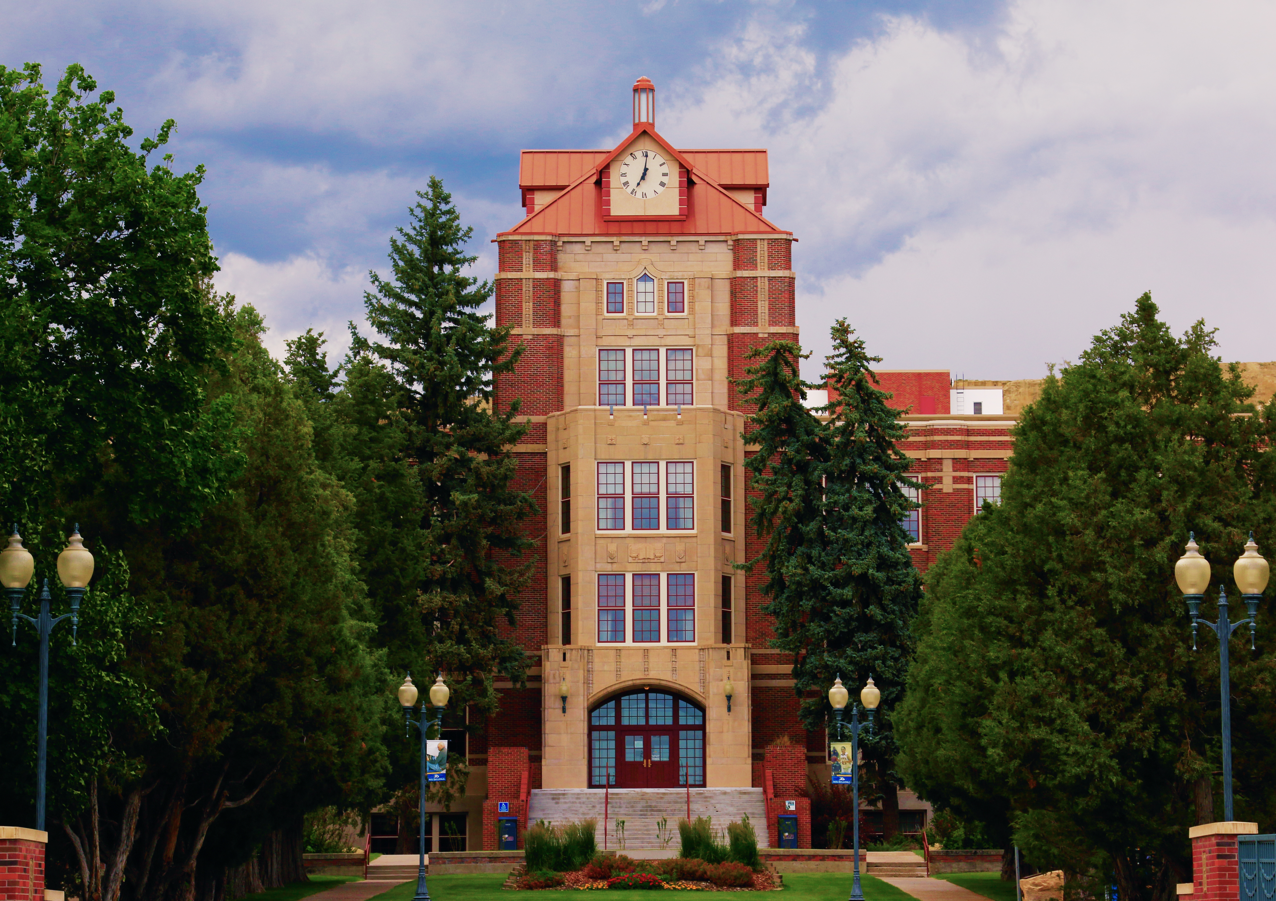 MSUB McMullen Hall